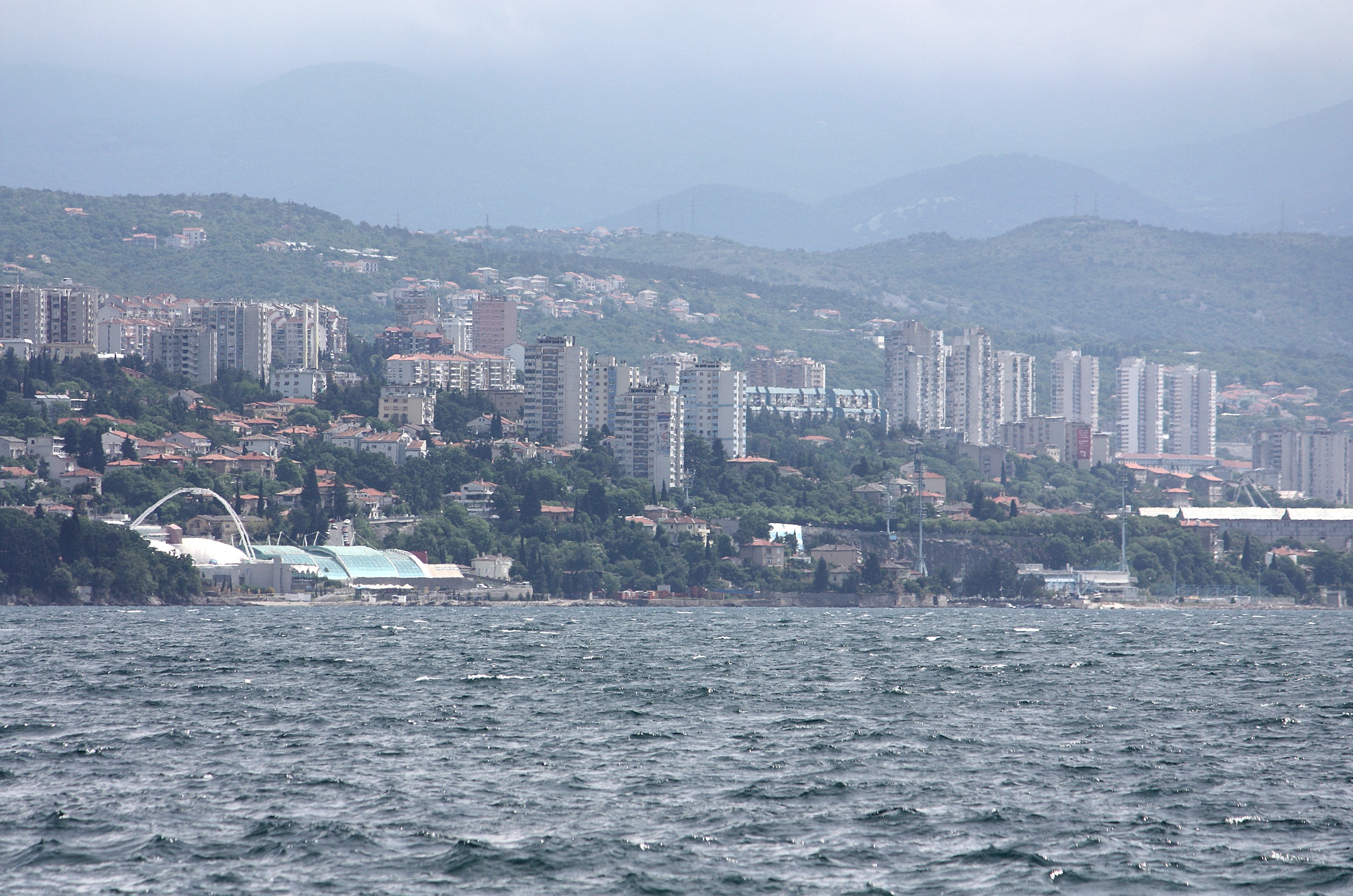 Opatija, view to Rijeka